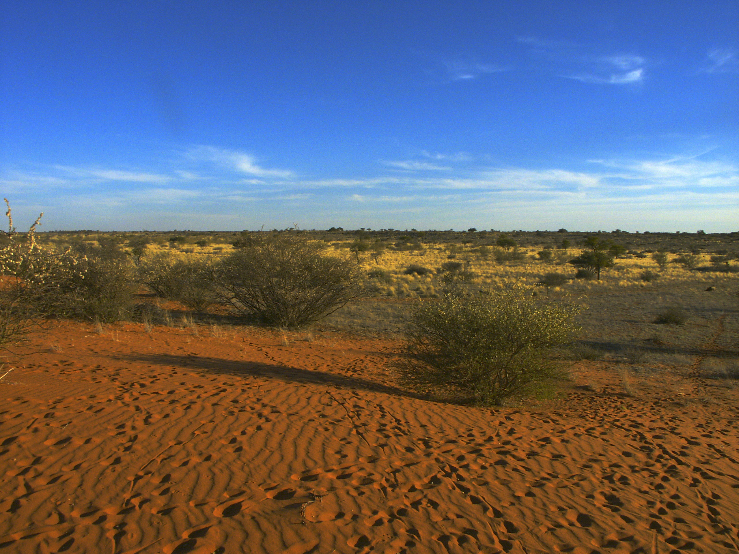 The Kalahari Desert (also spelt Kgalagadi) is an arid region in Botswana and Namibia. Photo : Landscape between City of Mariental and Border to Botswana